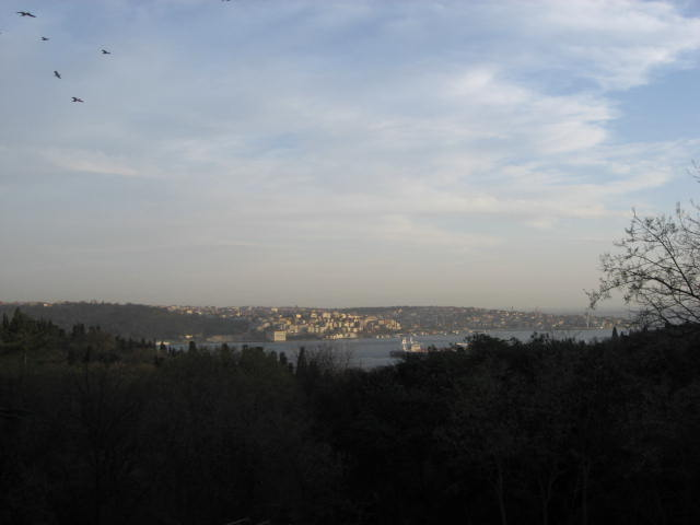 View on the Bosphorus from Malta Kiosk